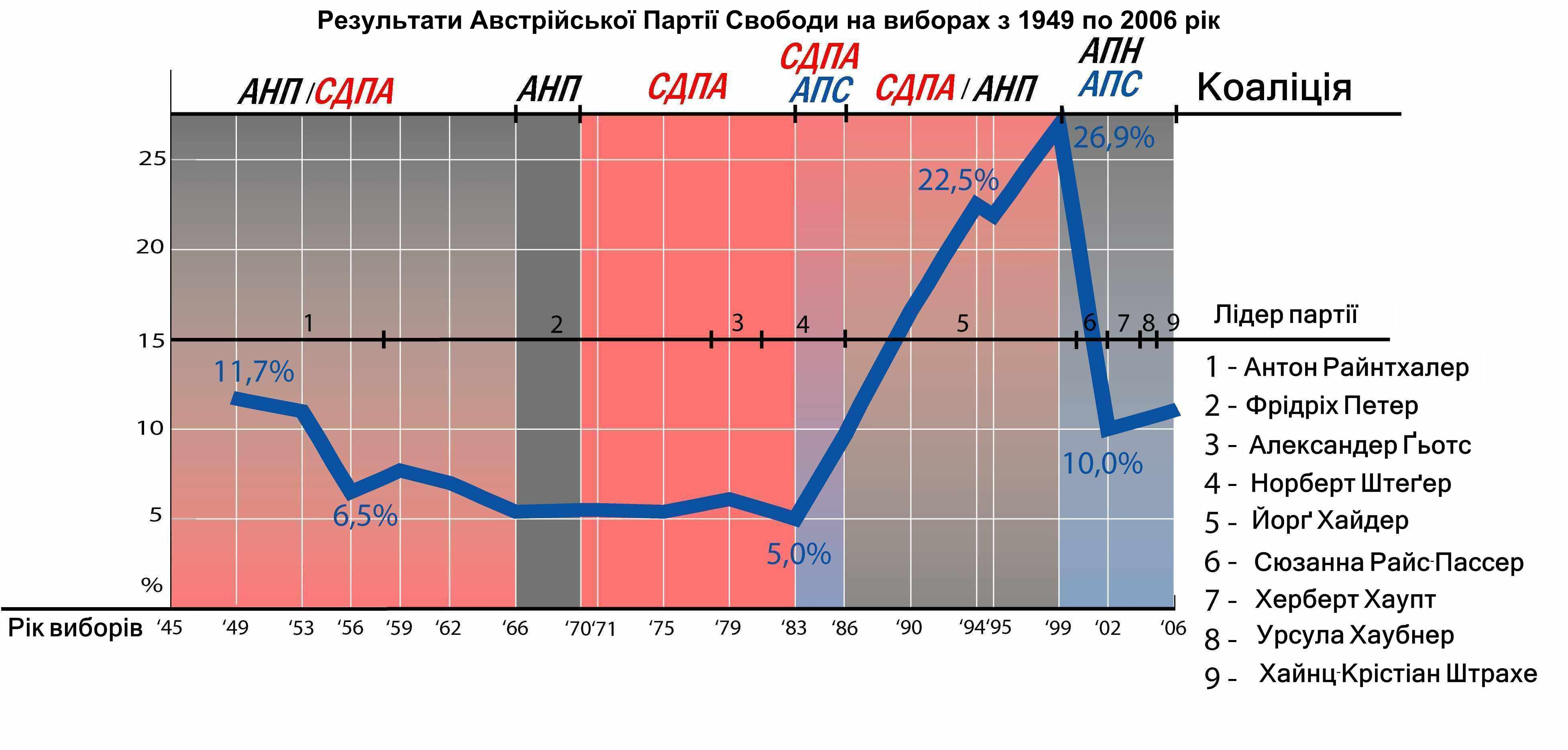 Austrian Party FPO, election results and heads of party, 1945-2006. In ukrainian language